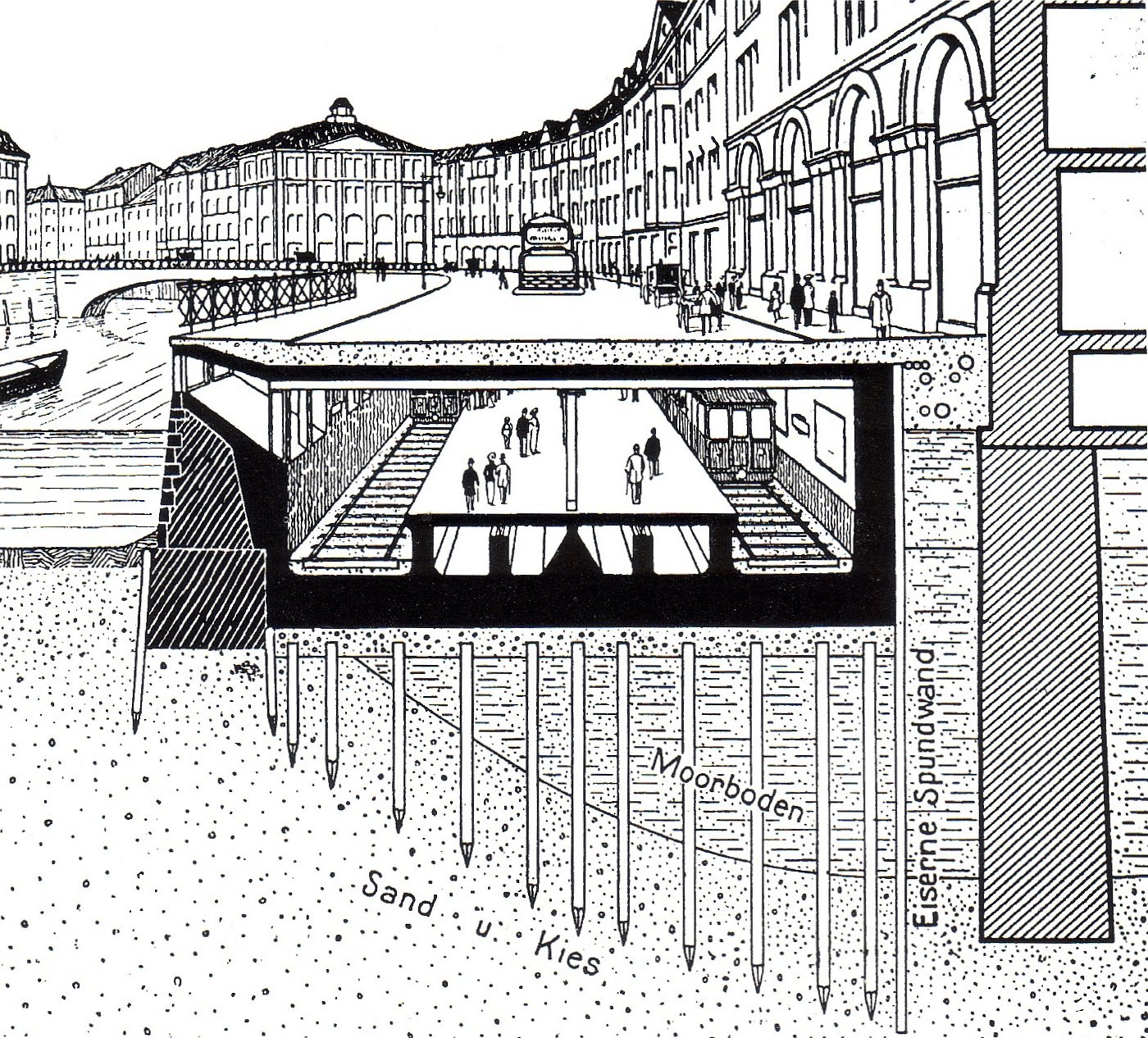 Draft of the Berlin U-Bahn station Spittelmarkt, line U2